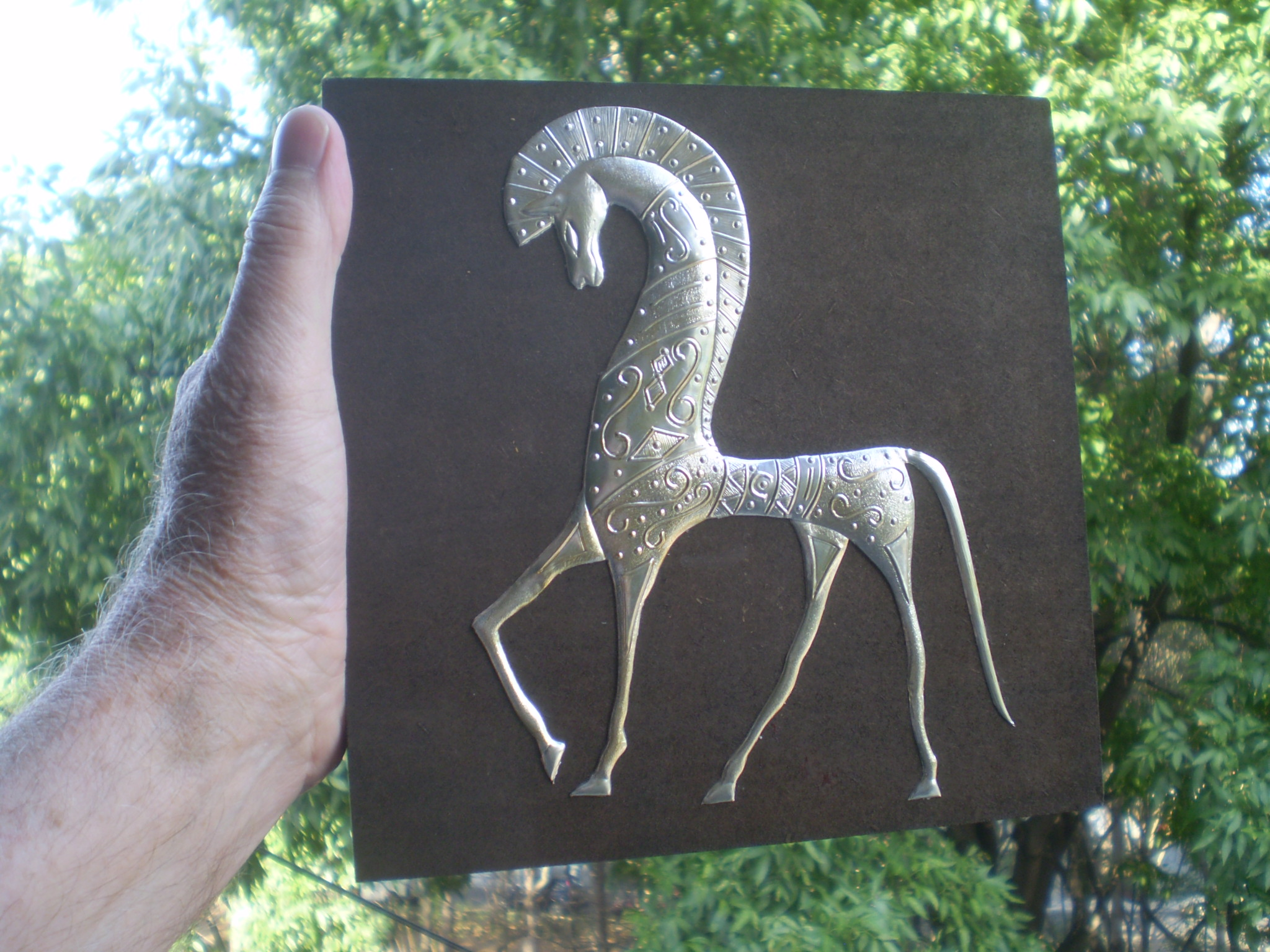 Repoussé on tin, "Greek horse", geometric períod, in wood base of 20 cm x 20 cm, by mexican artist Manolo Vega, 2011.